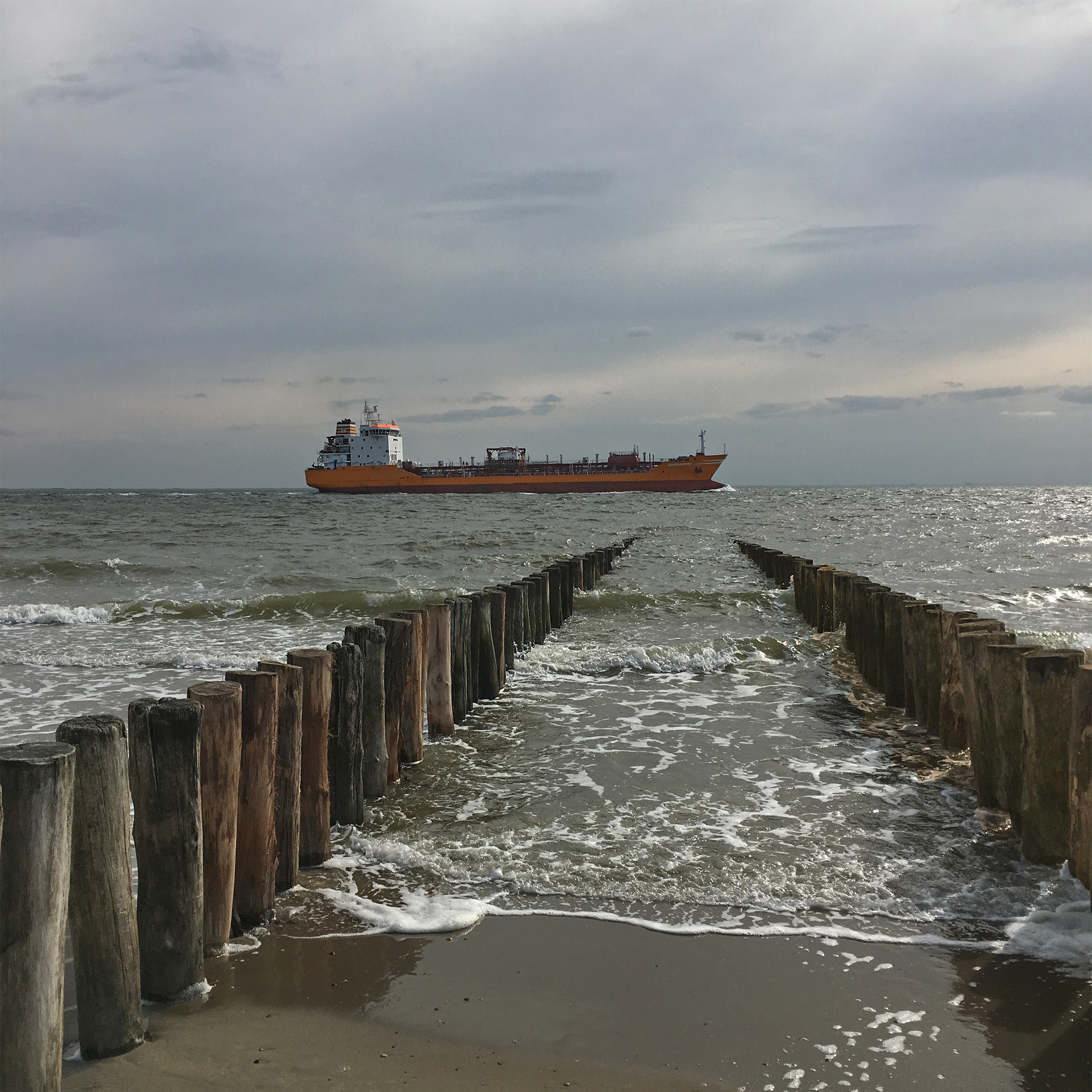 Wooden groyne at the North Sea near Zoutelande in the Dutch province of Zeeland.